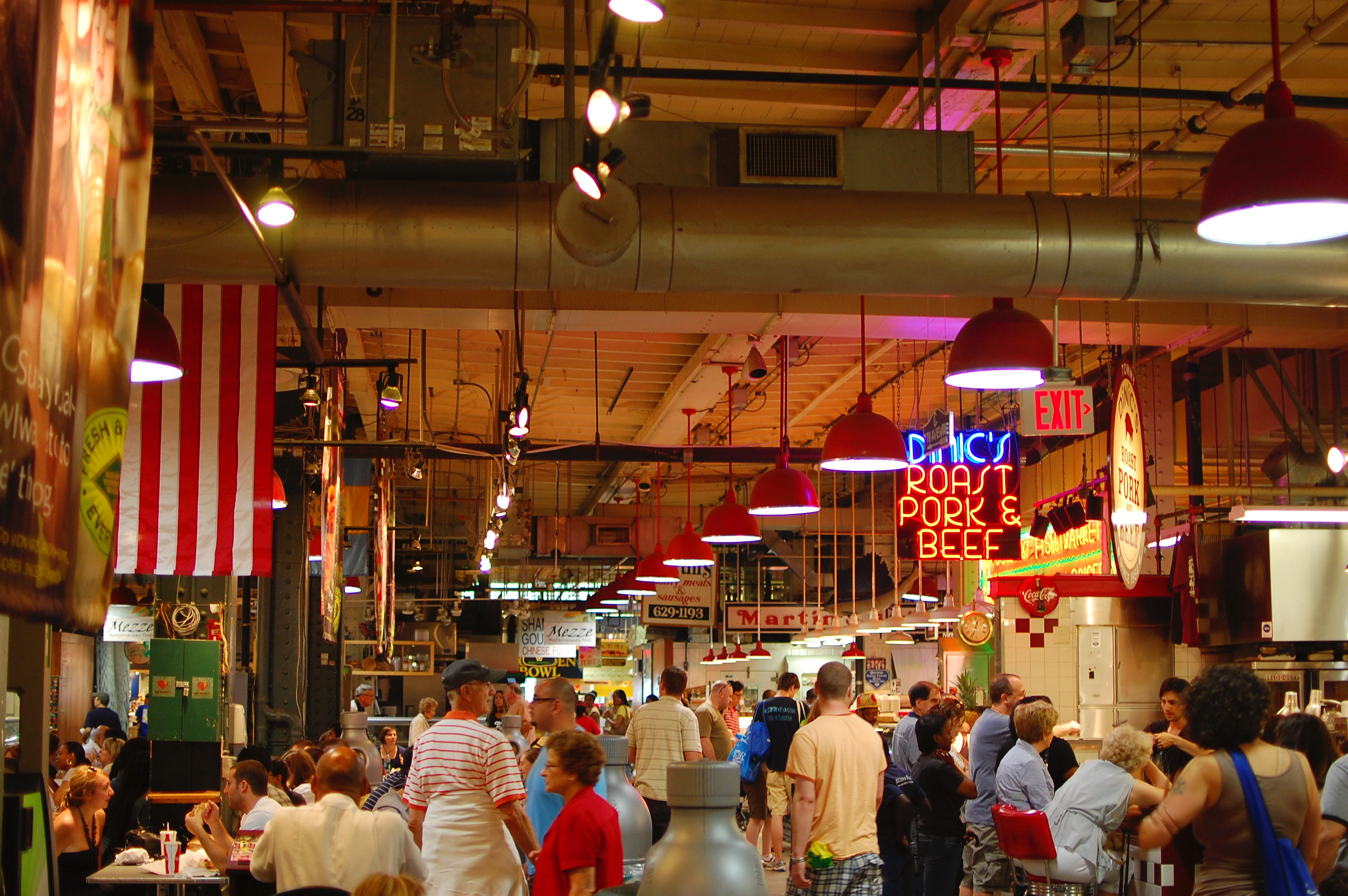 Inside the enormous marketplace at the Reading Terminal